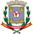 Prefeitura